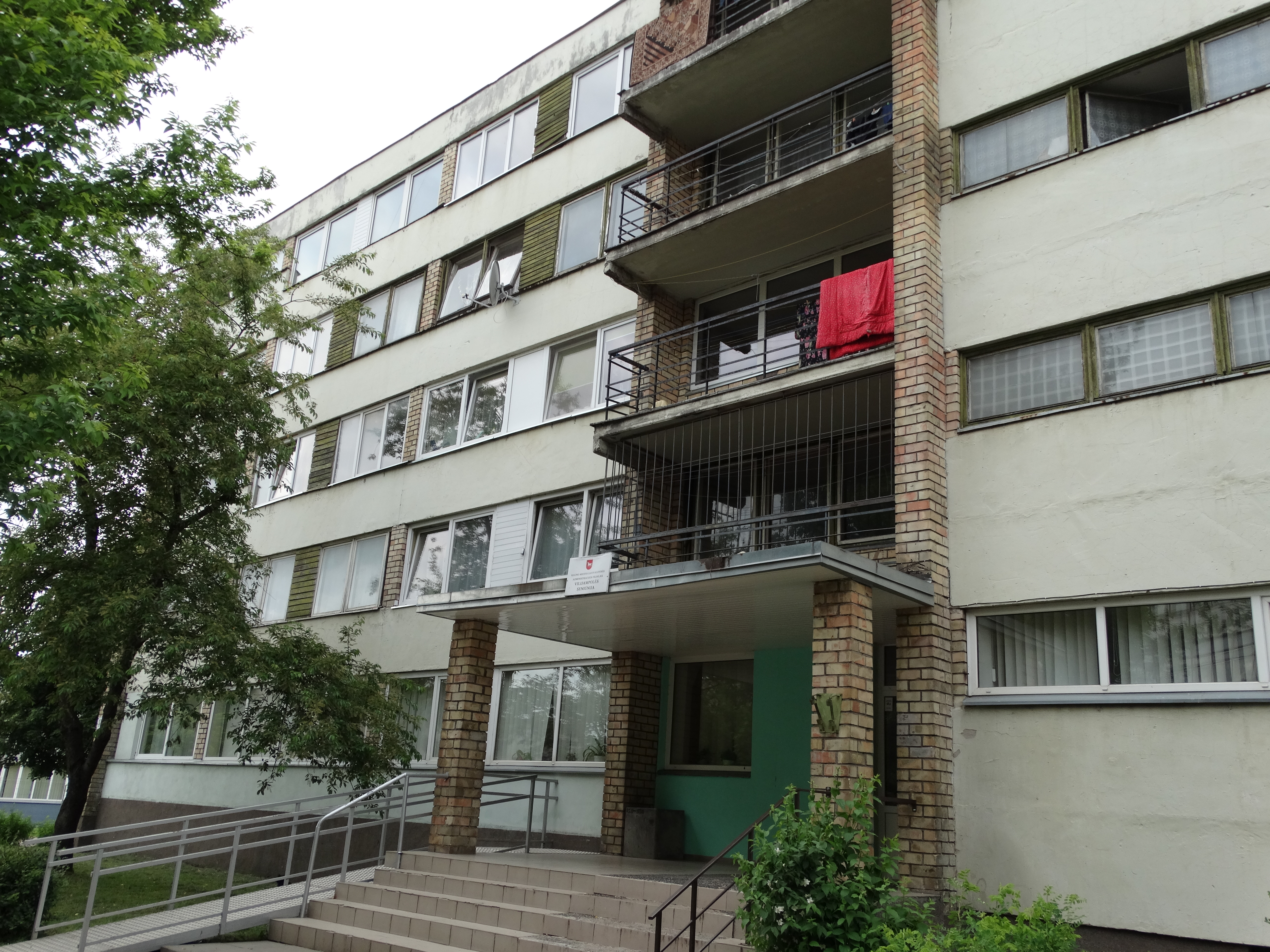 Eldership, Vilijampolė, Lithuania